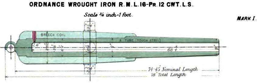 Diagram showing gun barrel cross section of British RML 16 pounder 12 cwt heavy field gun.